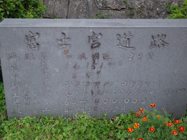 Monument of Fujinomiya road